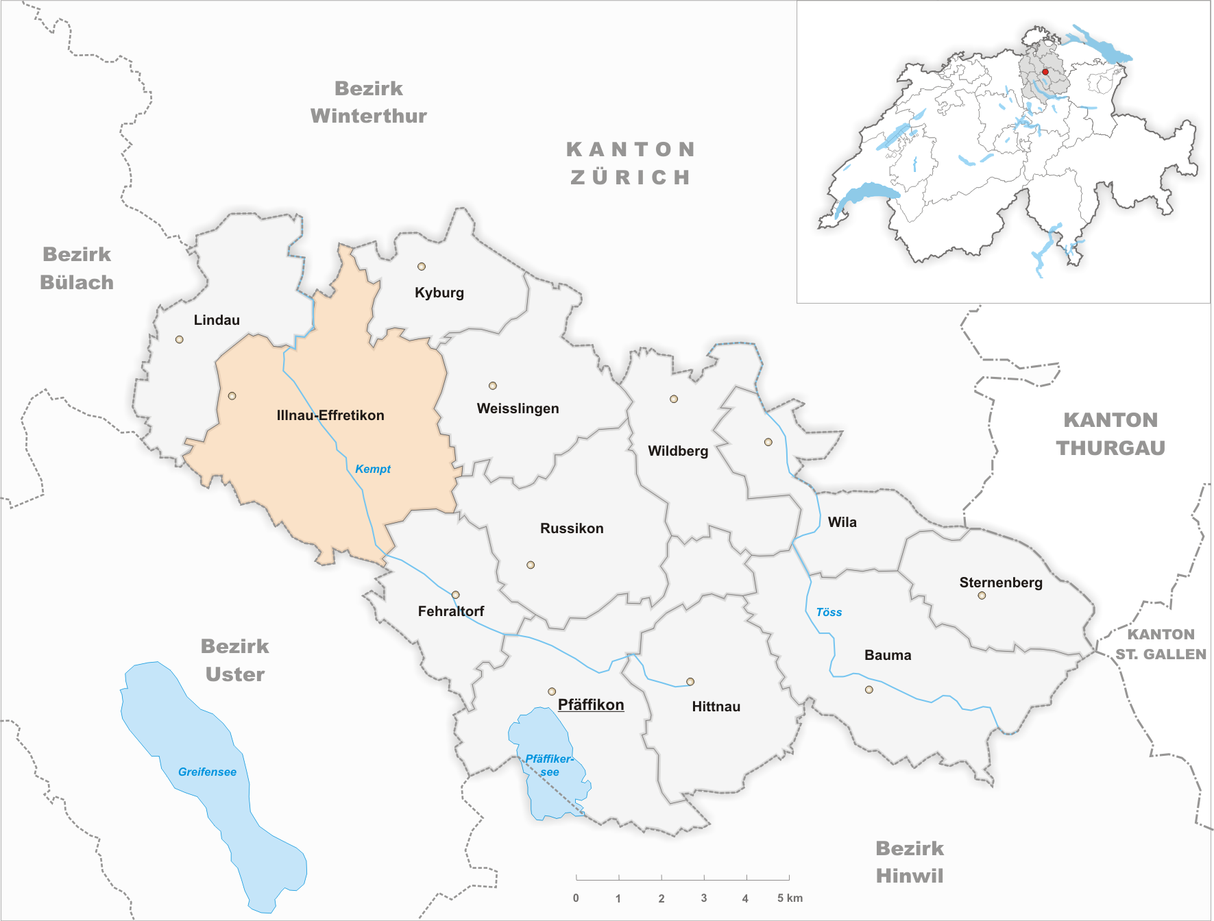 Municipality Illnau-Effretikon